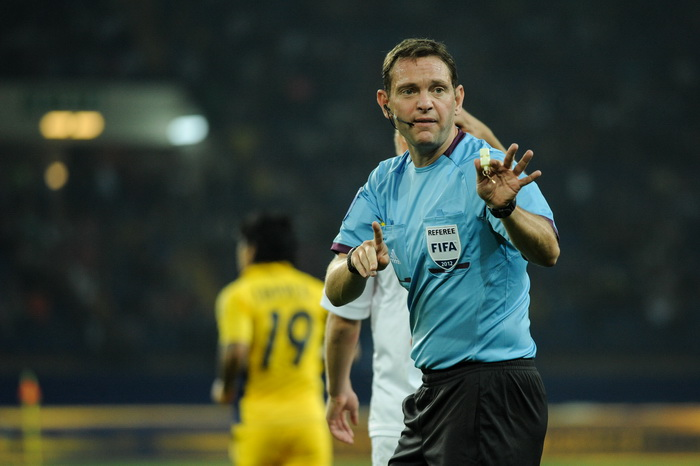 Yevhen Aranovskiy in 2012